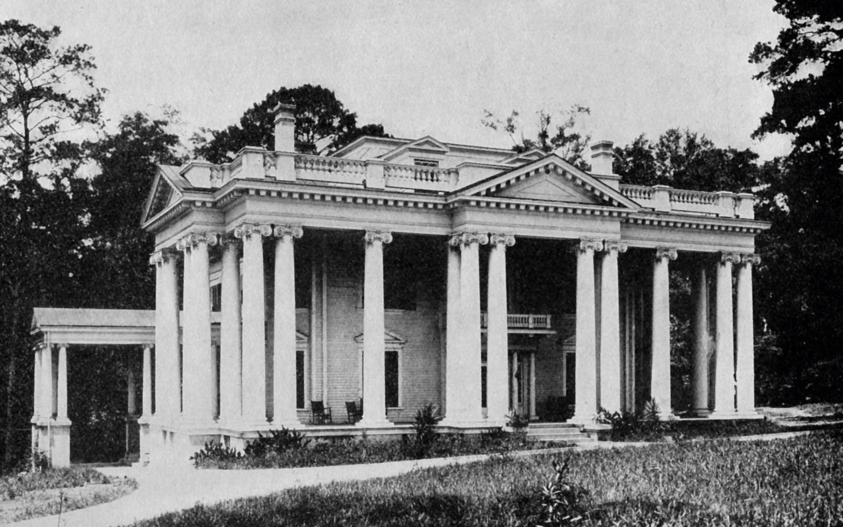 The Florida Governor's Mansion, in about 1912